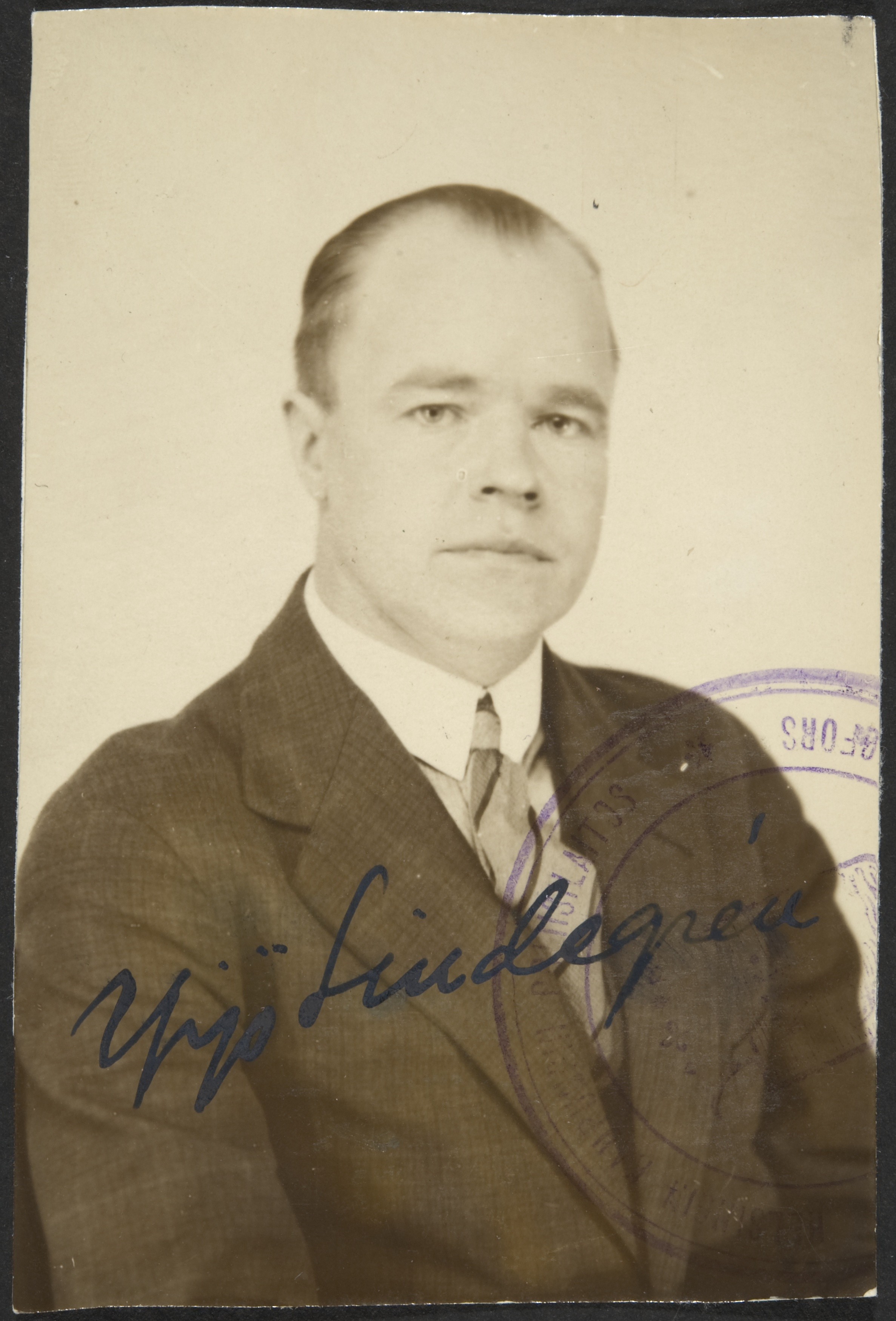 Photograph of the Finnish architect Yrjö Lindegren (1900–1952).